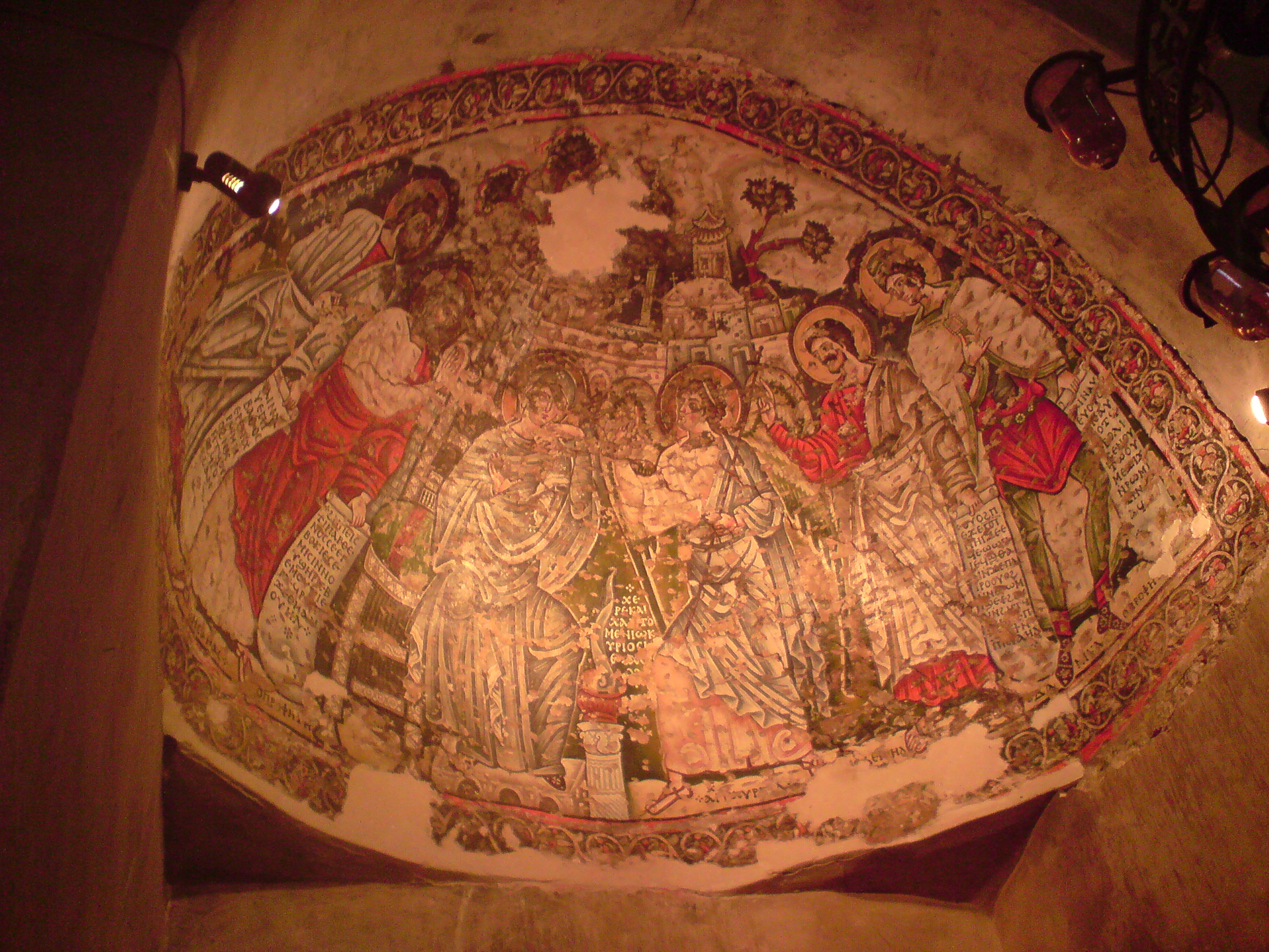 Frescos from the Syrians monastery of Wadi Natrun in Egypt.